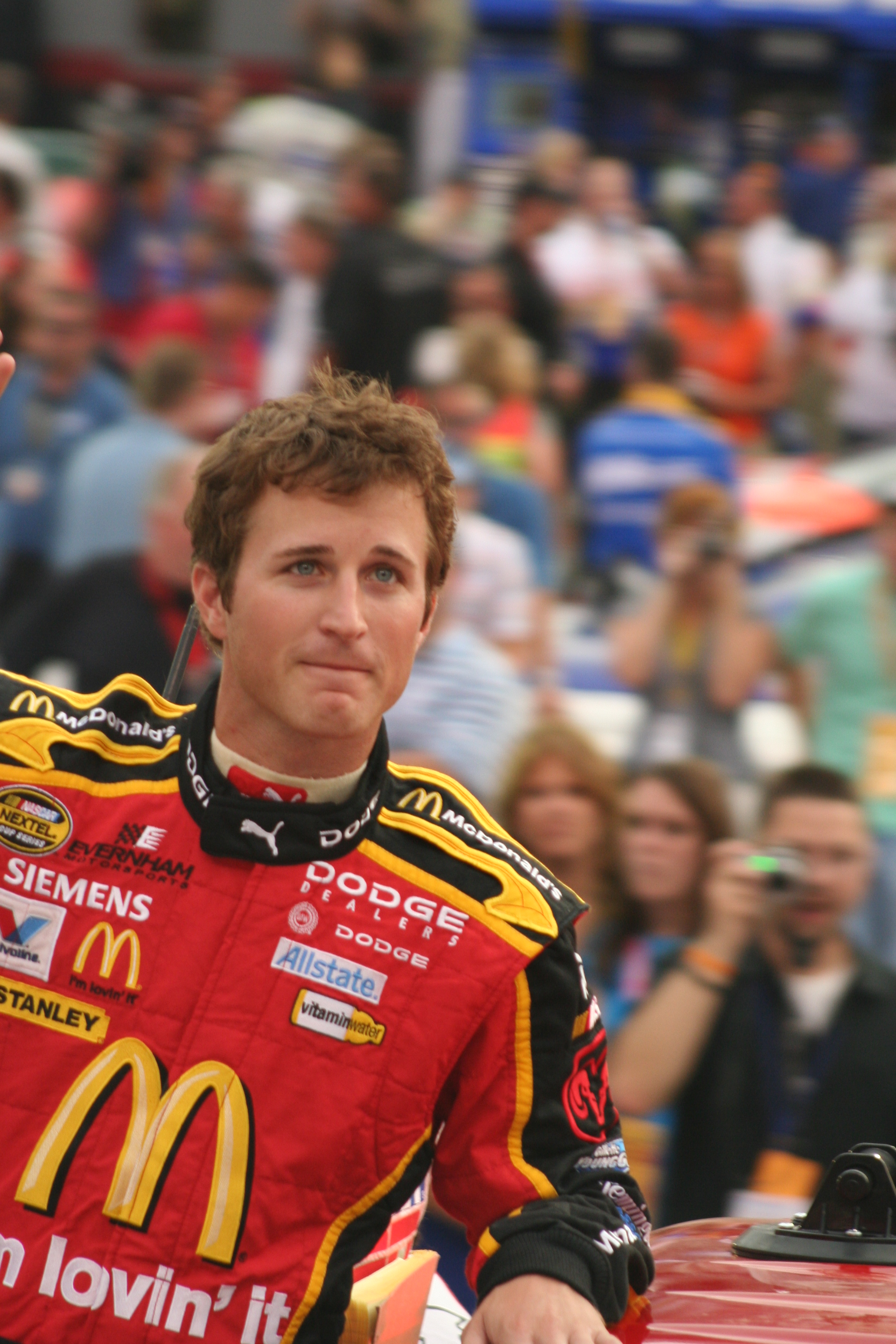 NASCAR driver Kasey Kahne at Bristol Motor Speedway in August 2007Kasey Kahne